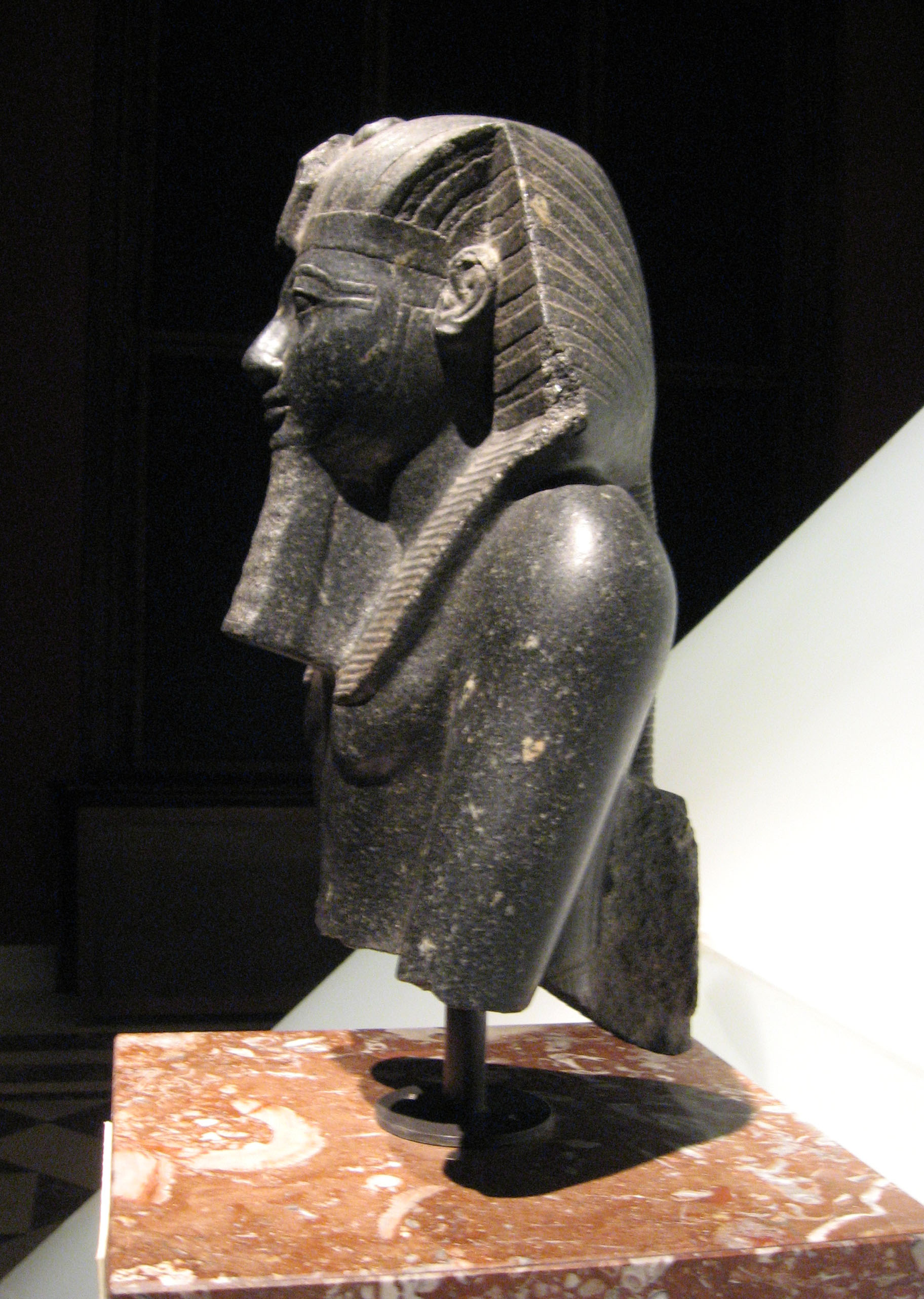 Statue of Thutmosis III in the Kunsthistorisches Museum in Vienna (Wien). Acquired in 1821 by Ernst August Burghart in Egypt. ÄS. 70.